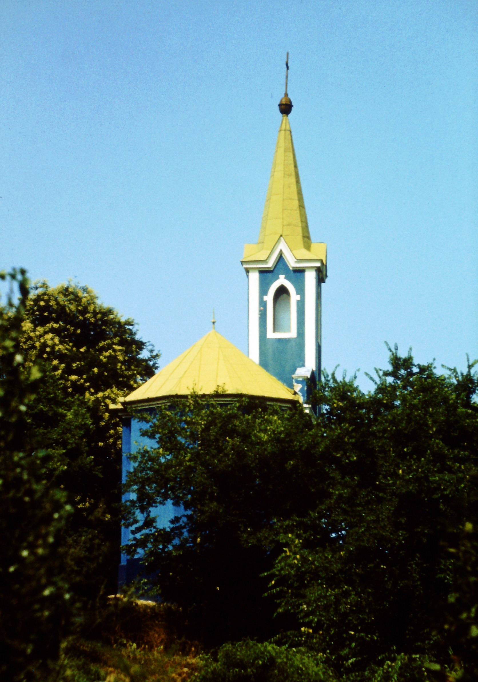 Blue Chapel, Balatonboglár, Hungary (1977)